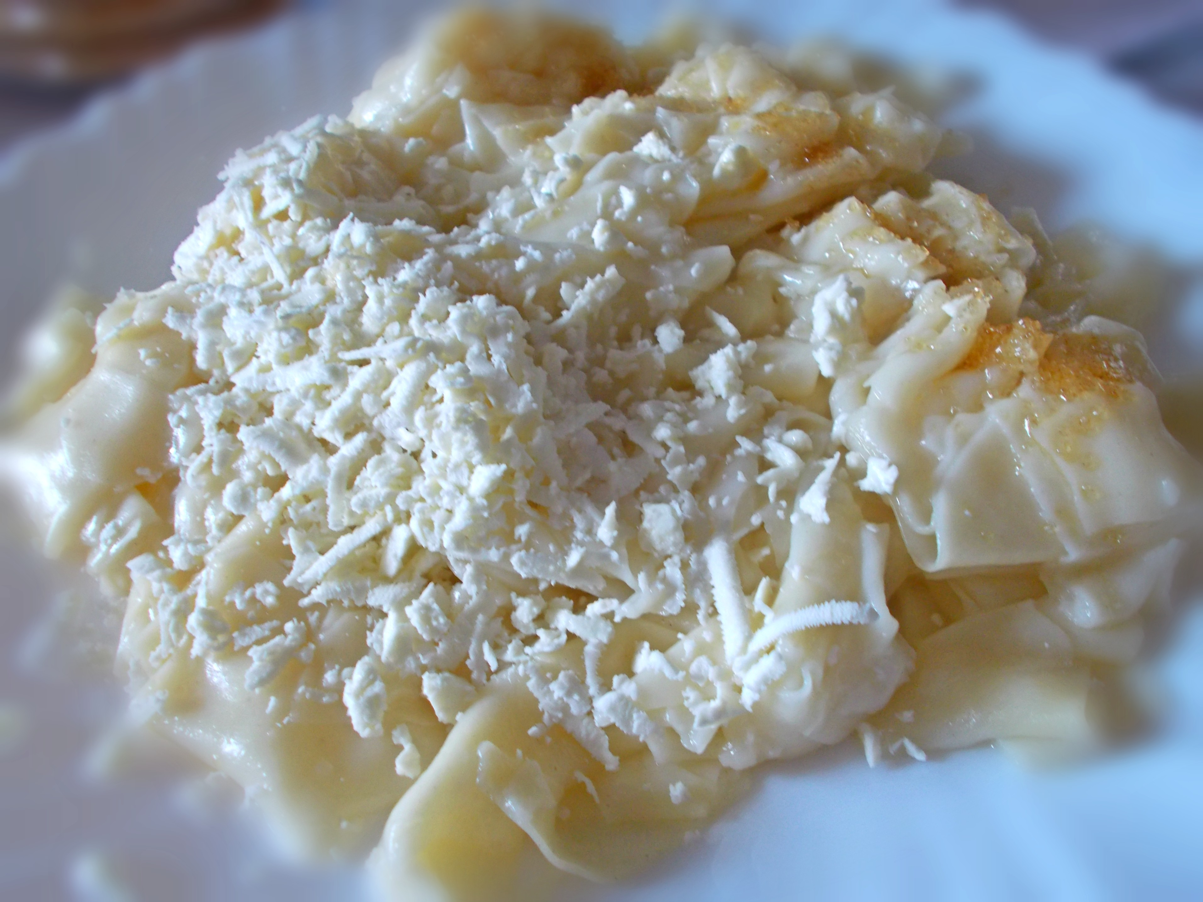 JUFKI - Macedonian traditional pasta, dried in the sun, served with cheese or sugar